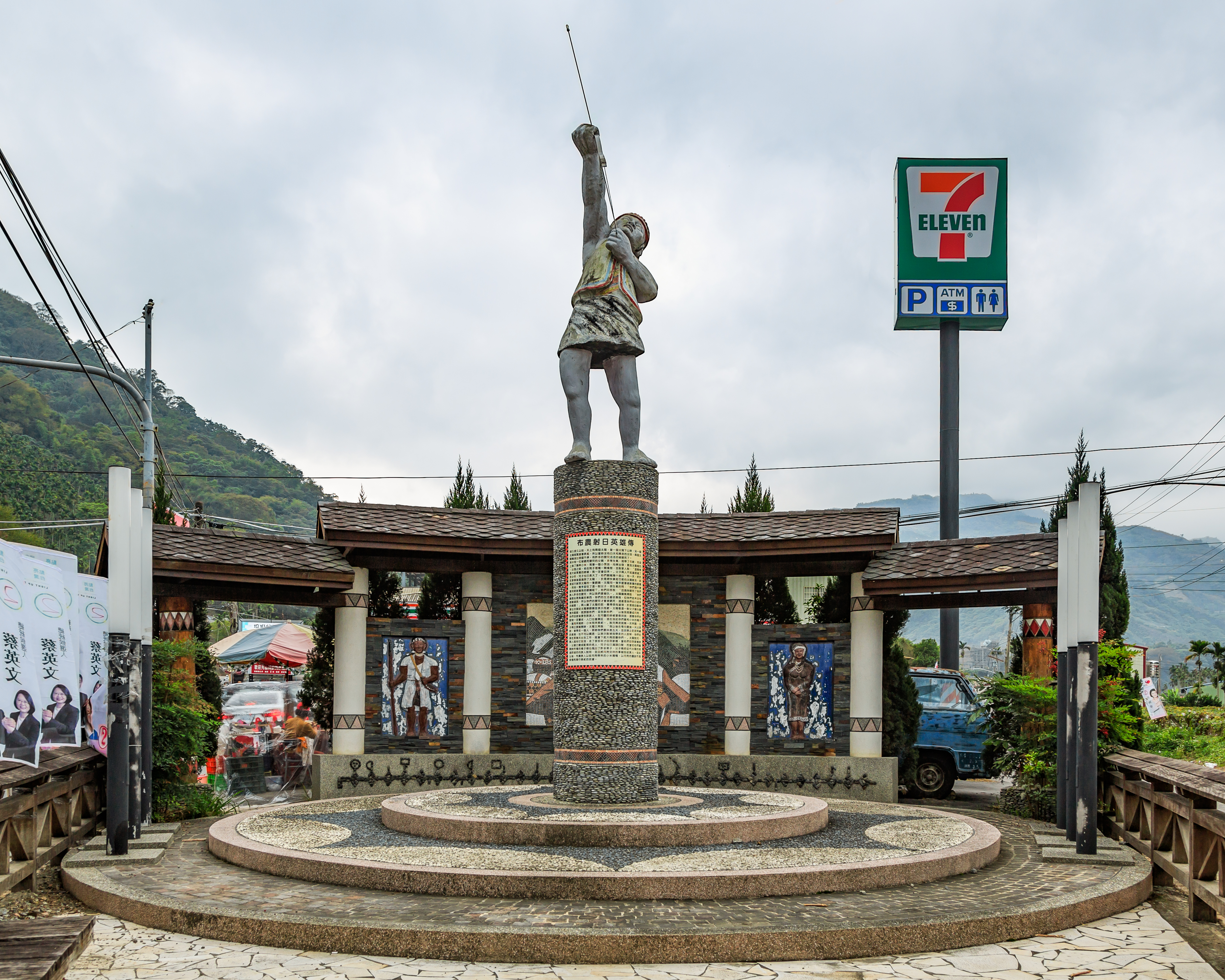 Xinyi, Nantou County, Taiwan: Monument to the Bunun hero, who shot down the sun. According to Bunun legend, two suns shone down upon the earth and made it unbearably hot. A father and a son endured numerous hardships and finally shot down one of the suns, which then became the moon.